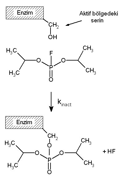 Reaction of the irreversible inhibitor diisopropylfluorophosphate (DFP) with a serine protease.